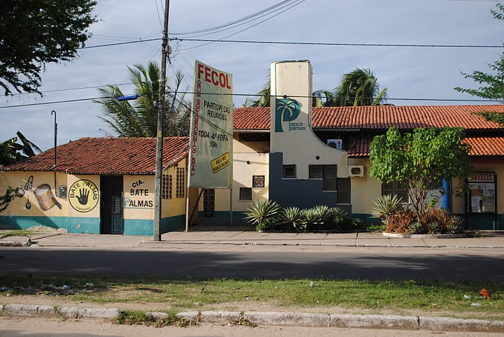 Front view of Banco Palmas